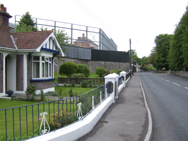 Bungalow by Gough Barracks The military building in this view of Victoria Road is the Gough barracks which has been used for many years as an RUC/PSNI base and prior to that as a British Military base.